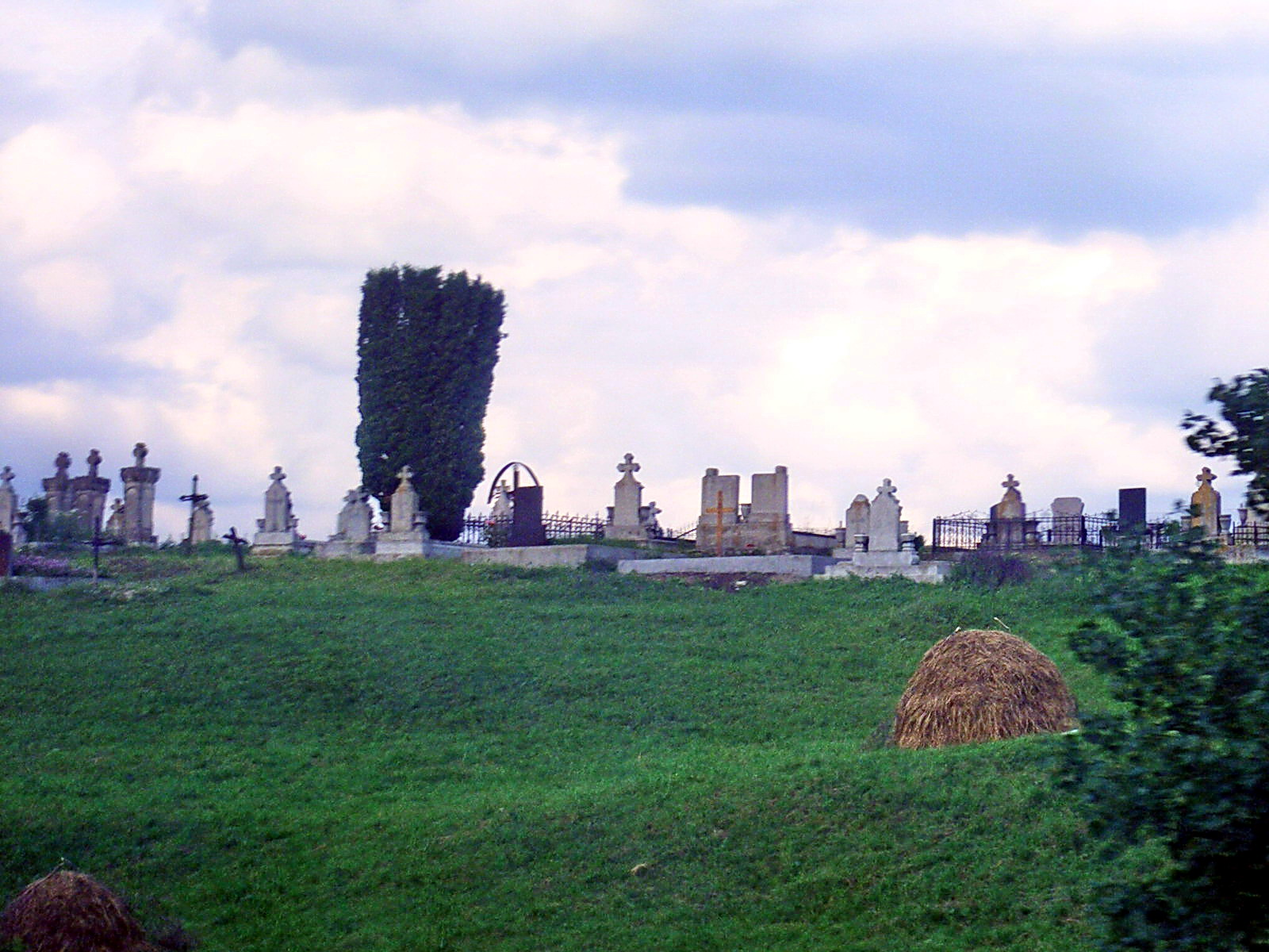 Cemetery in Harasztos (Călăraşi).